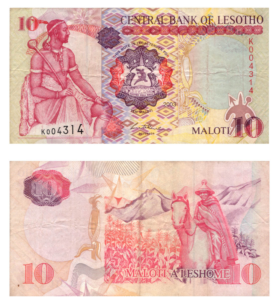 10 maloti, value 1,12€ (2005), coupled 1:1 with south african rand. Pictures show king Moshoeshoe I. and a typical lesotho horseman in traditional clothes